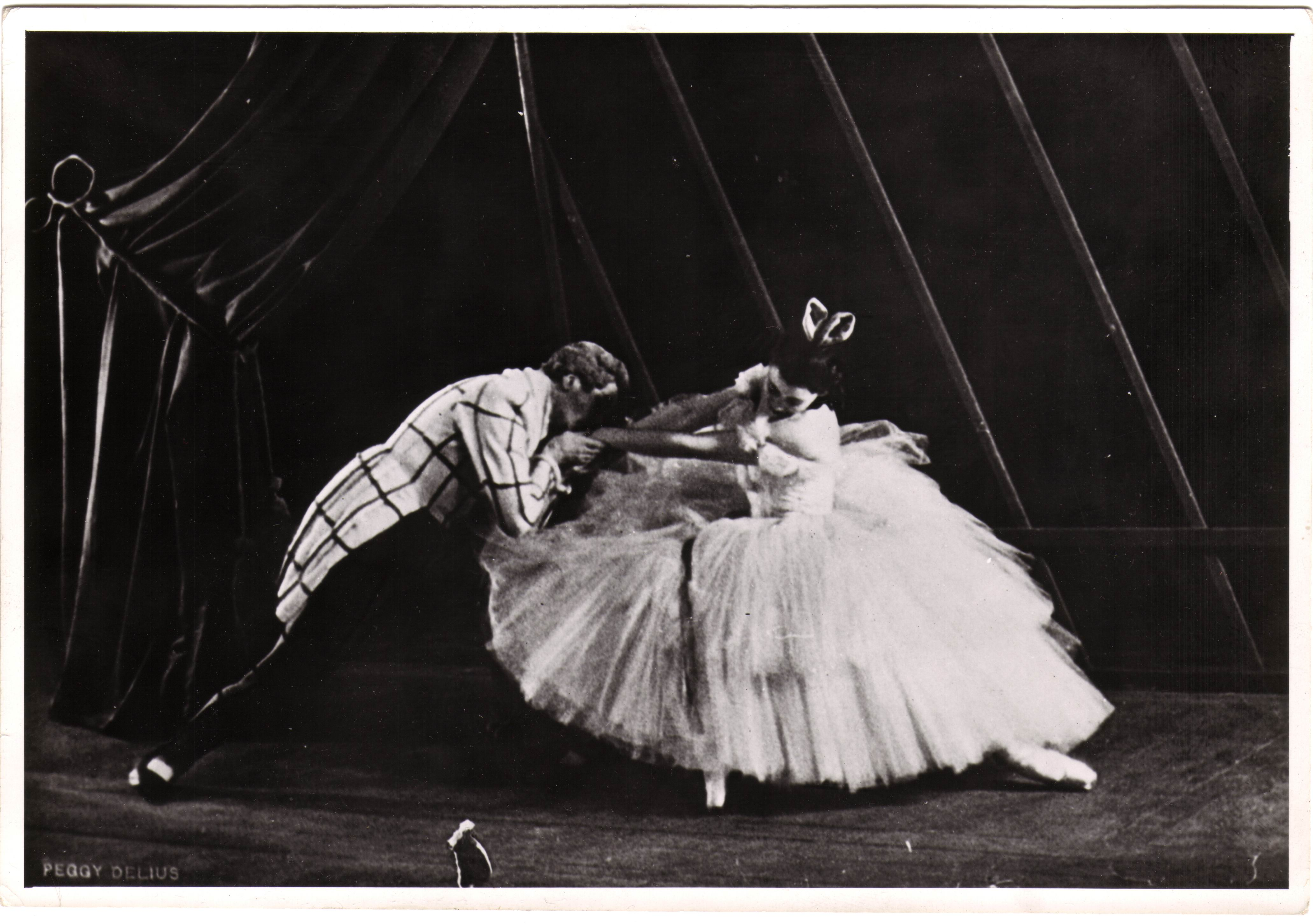 Dancers Kari Karnakovski and Nina Youshkevitch of the Balet Polski in Bronislava Nijinska's ballet Apollon et la Belle